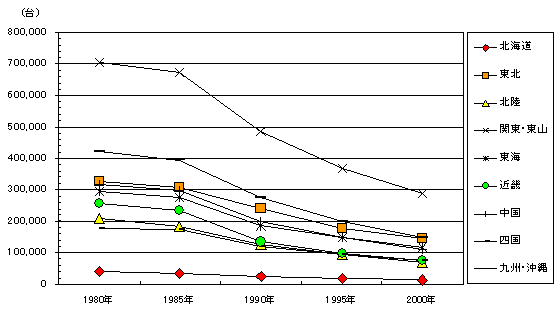 A graph of the numbers of rotary tillers in Japan 1980-2000 日本国内・地域別耕耘機台数(1980～2000年)